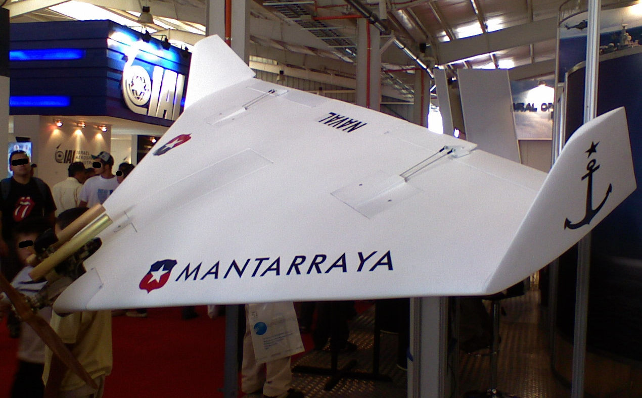 Manta I, an unmanned aerial vehicle operated by the Chilean Navy, in exhibition in the 2008 International Air & Space Fair in Santiago, Chile.